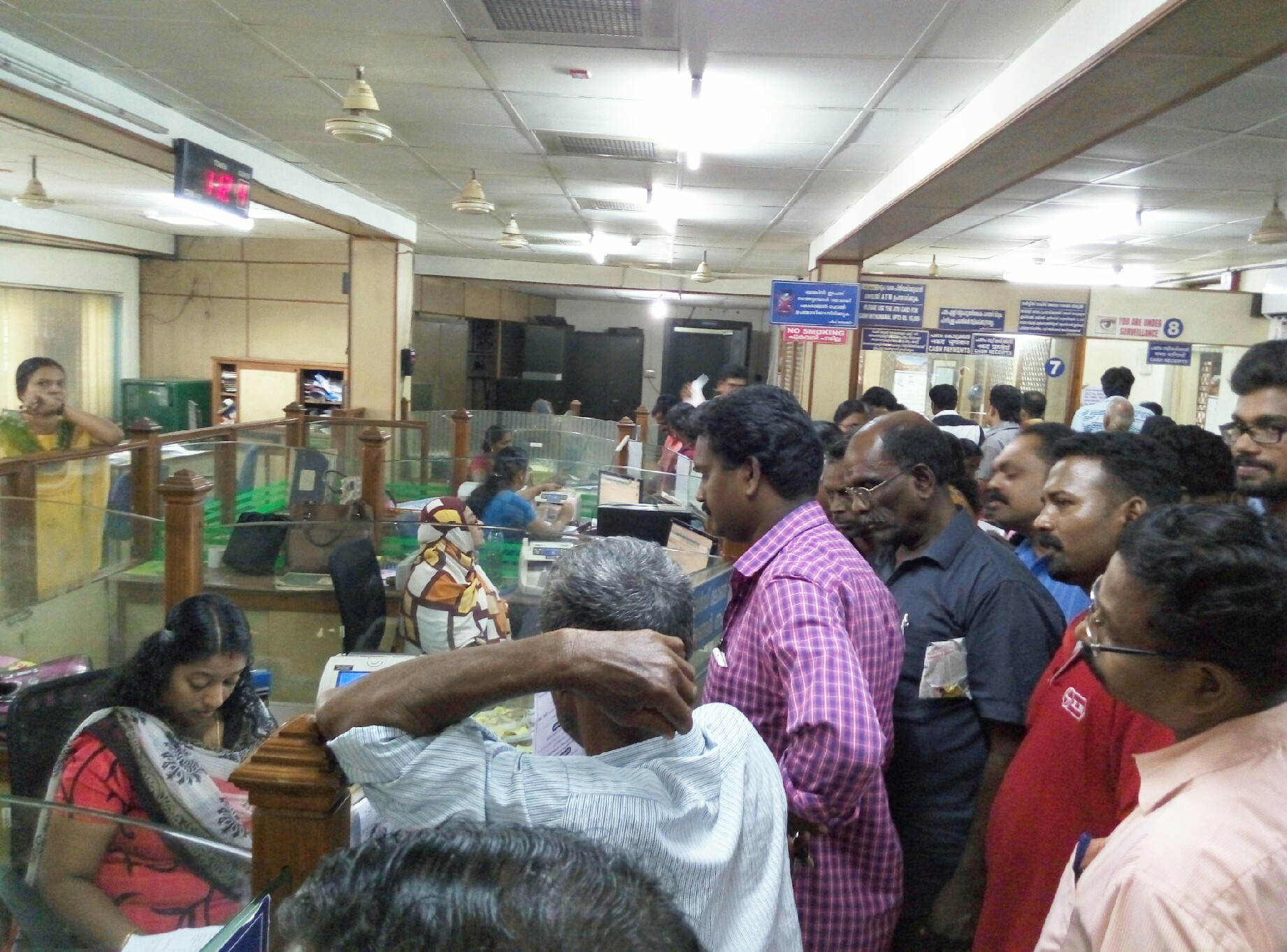 Indian rupee de monetisation rush in Kollam